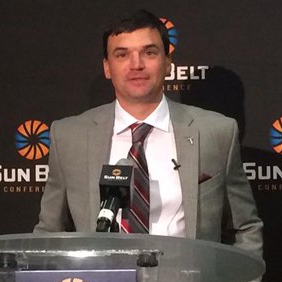 Neal Brown, head coach of the Troy Trojans football team, at the 2015 Sun Belt Conference Media Day in the Mercedes-Benz Superdome in New Orleans.